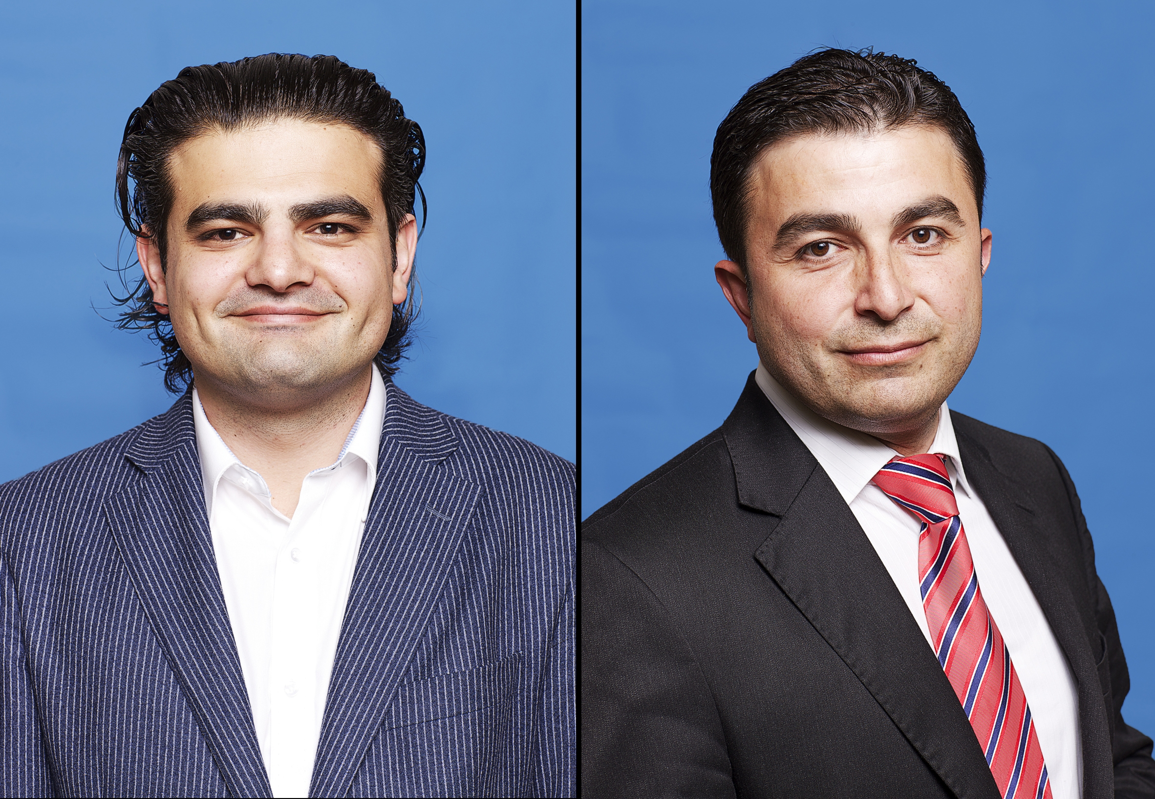 Image of political fraction in Dutch parliament, group Kuzu/Öztürk. Left: Kuzu, Right Öztürk